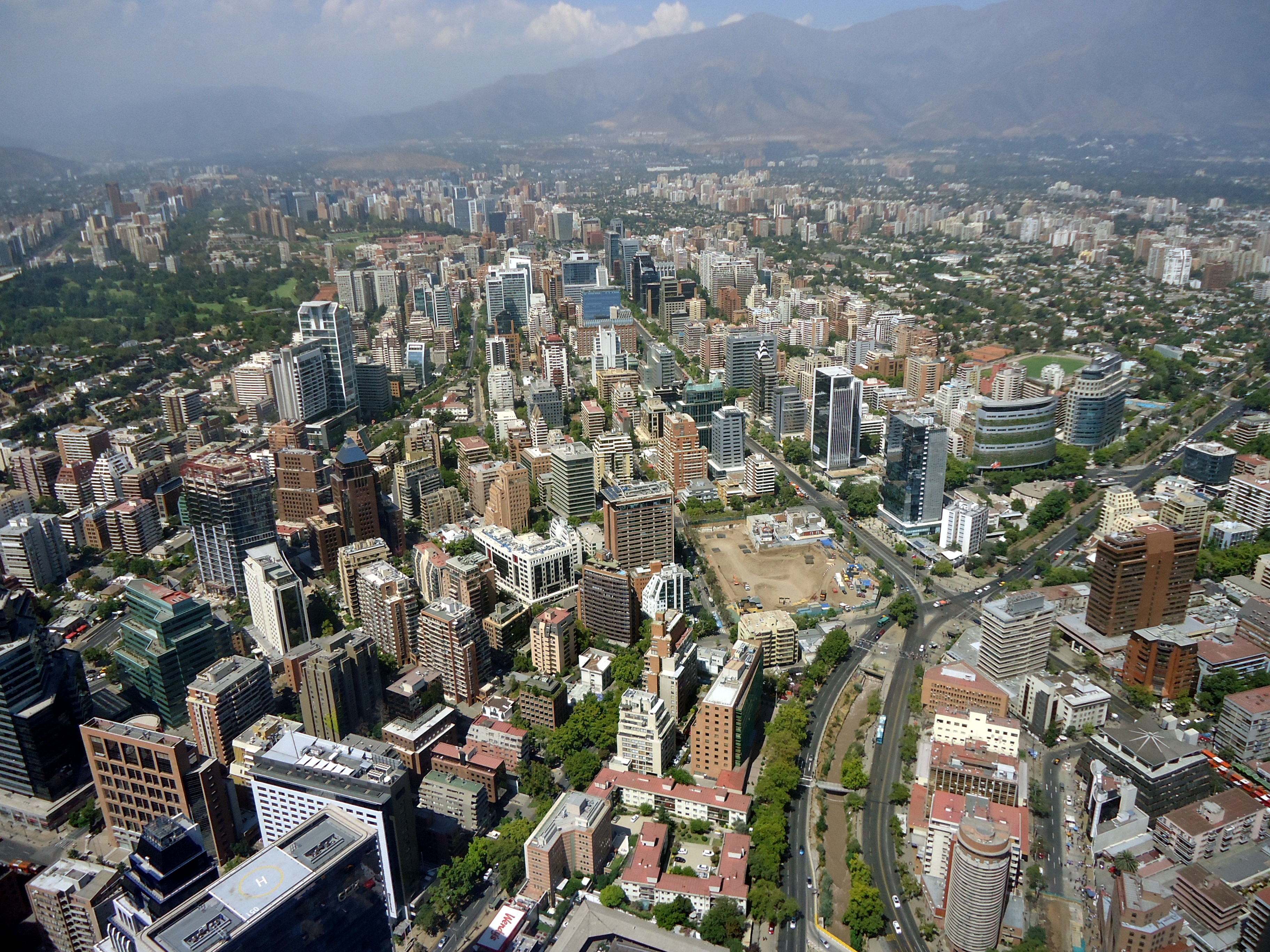 View of the east end (Barrio Alto) of Santiago de Chile from the watching deck of the Gran Torre Santiago.